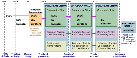 History of the structures of the EU. Created by User:Aris Katsaris. Blank version available at Image:Eu-structure-history-blank.png. There's also a template at: with links to the subjects.